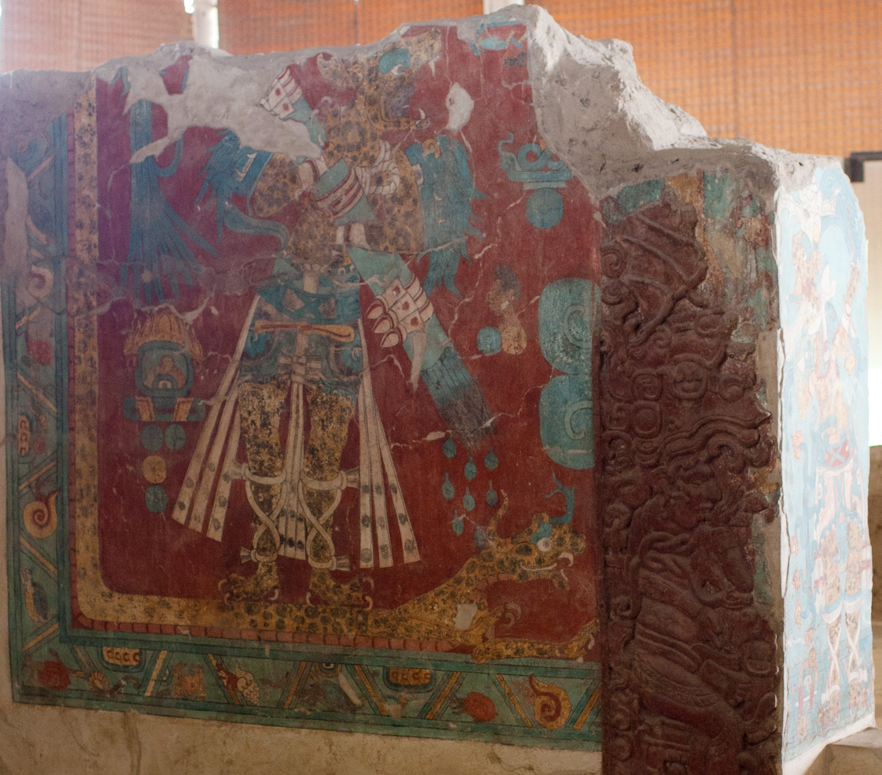 Bird man mural at Priestly Attier at Cacaxtla